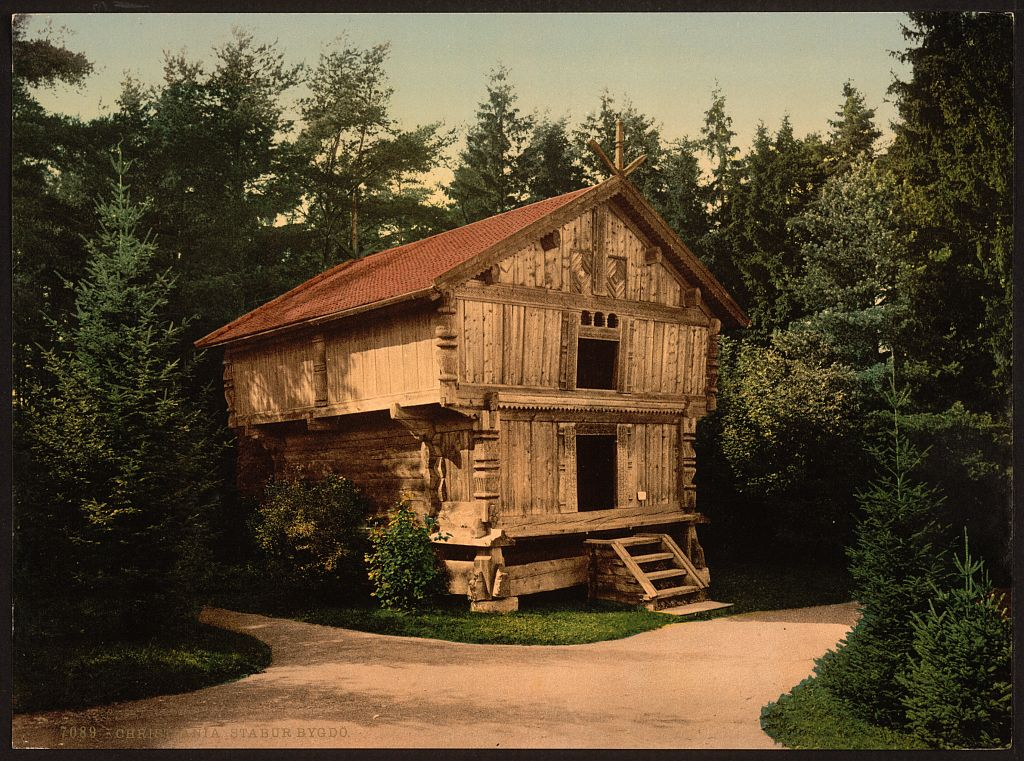 [Stabur Bygdo, Christiania, Norway] [between ca. 1890 and ca. 1900]. 1 photomechanical print : photochrom, color. Notes: Title from the Detroit Publishing Co., Catalogue J--foreign section. Detroit, Mich. : Detroit Publishing Company, 1905. Print no. 7089. Forms part of: Landscape and marine views of Norway in the Photochrom print collection. Subjects: Norway--Oslo. Format: Photochrom prints--Color--1890-1900. Repository: Library of Congress, Prints and Photographs Division, Washington, D.C. 20540 USA, Part Of: Landscape and marine views of Norway (DLC) 2001699563 More information about the Photochrom Print Collection is available at Persistent URL: Call Number: LOT 13432, no. 014 [item]